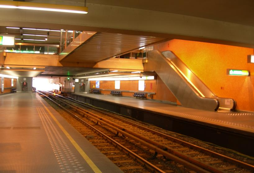 Platforms of Thieffry station, Brussels metro